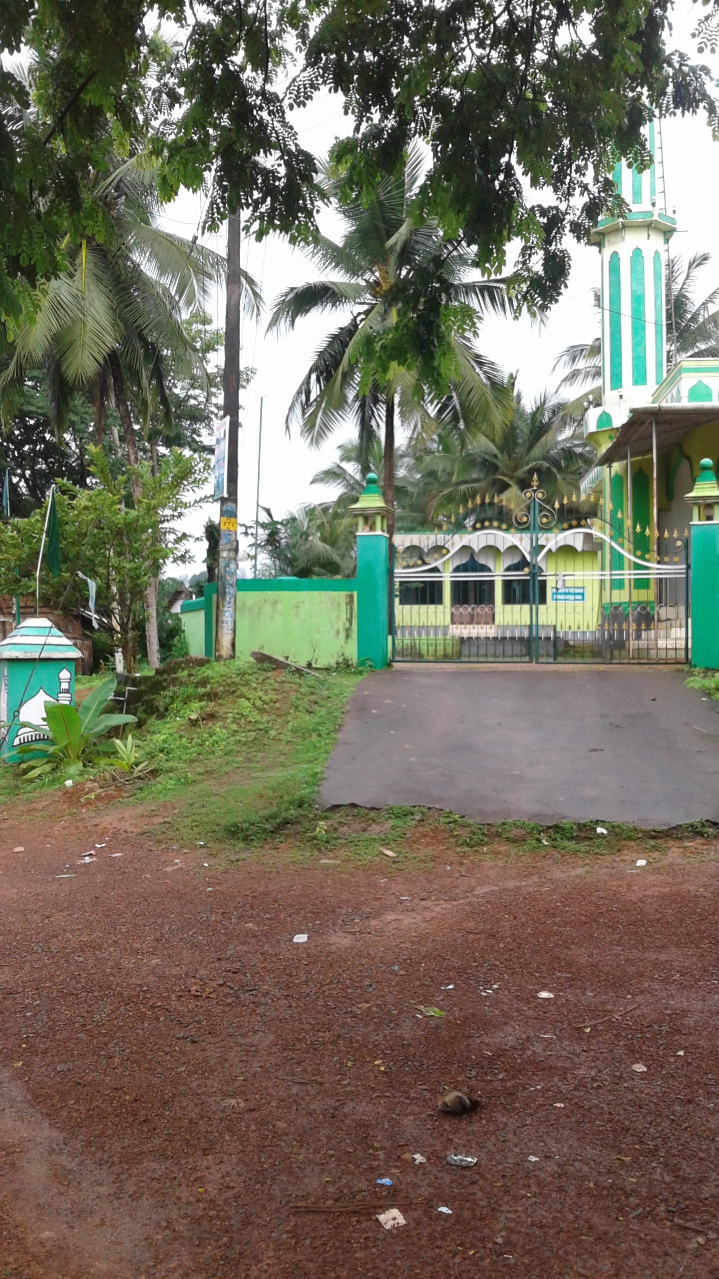 Kasaragod-Sullia Road, Kerala state, India.